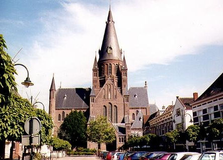 Church of Saint Gummarus, Steenbergen; the Netherlands